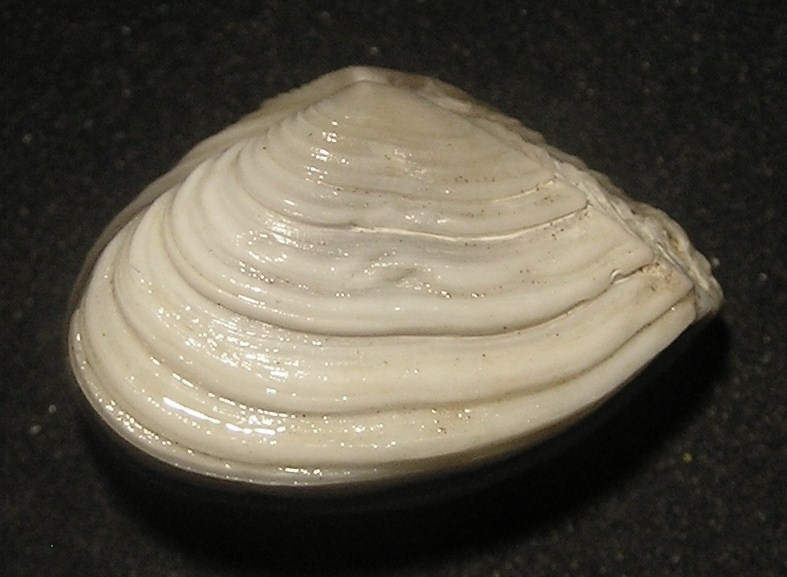 Corbula modesta (Bivalvia: Corbulidae). The specimen captured on Philippines.